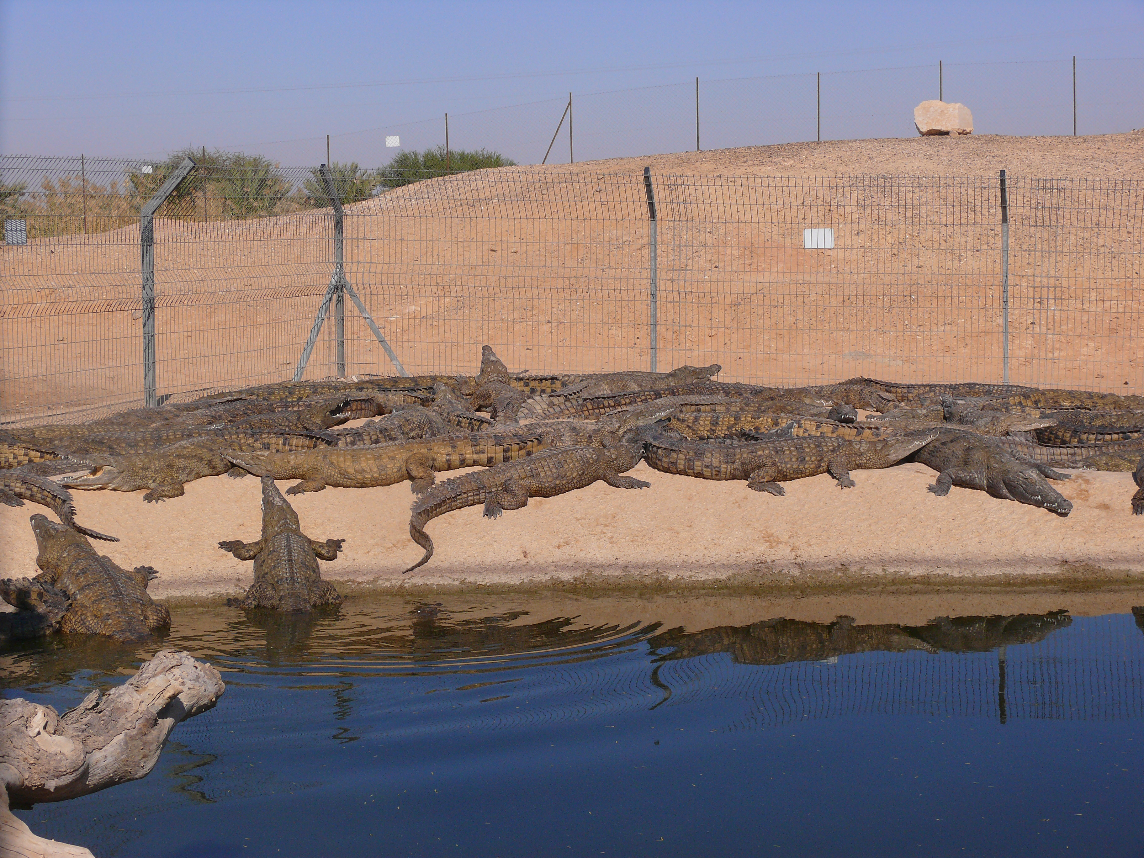 Nile Crocodiles (Crocodylus niloticus) in CrocoLoco Farm, Israel